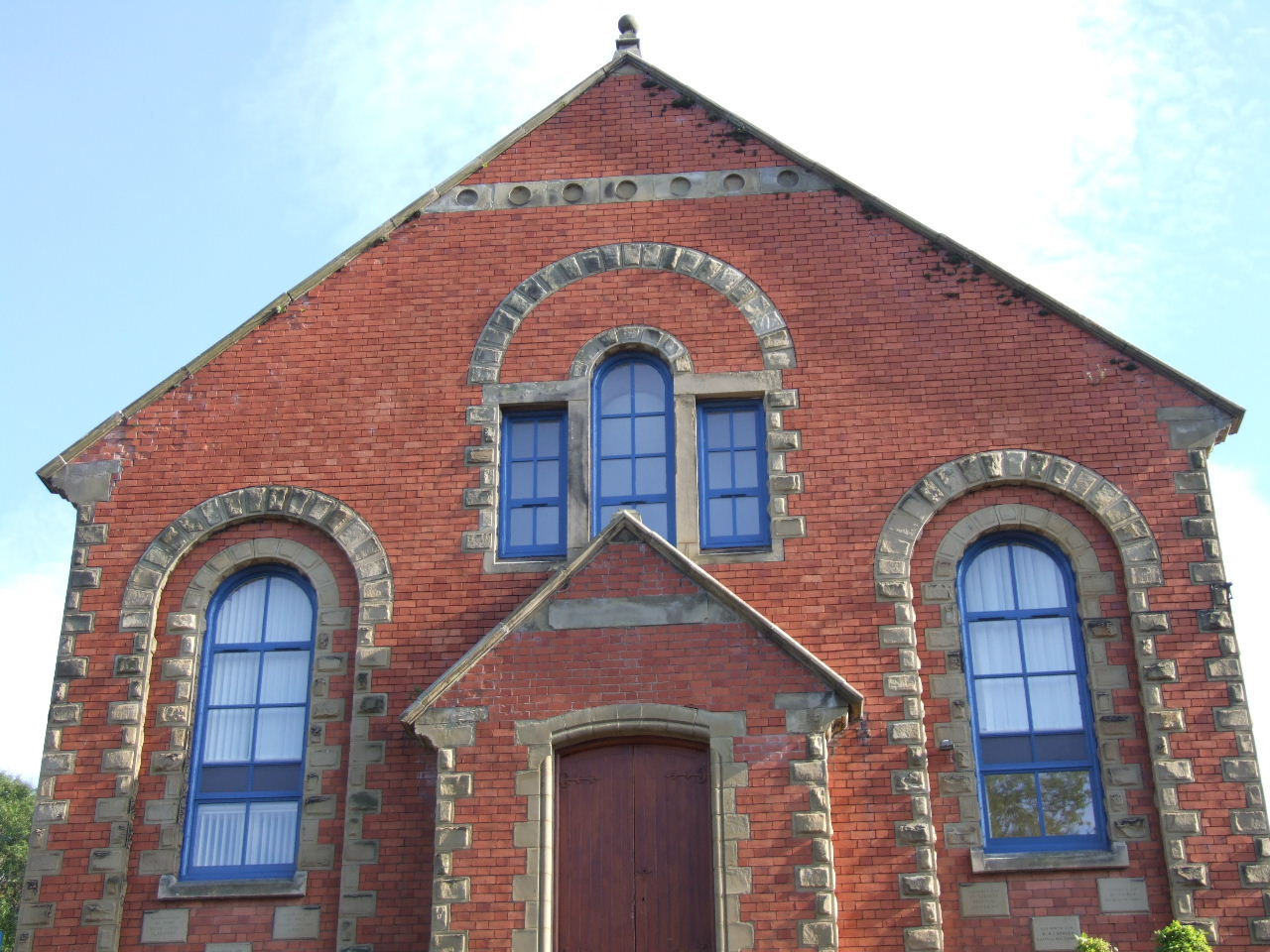 Chapel in Gyffin, nr. Conwy, Conwy County, Wales.